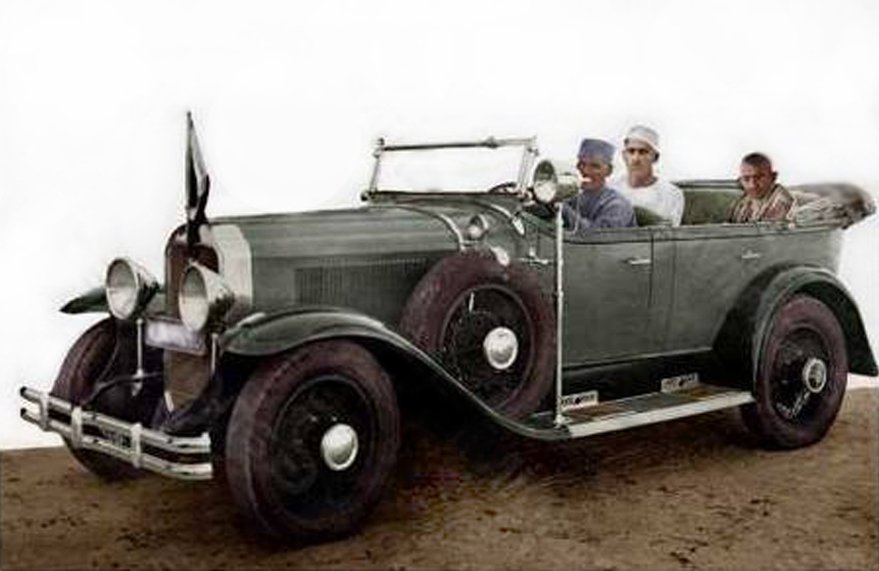 This is picture of Image Mahatma Gandhi with ruler of Kalakankar state (now in Pratapgarh, Uttar Pradesh) on 14th November 1929.